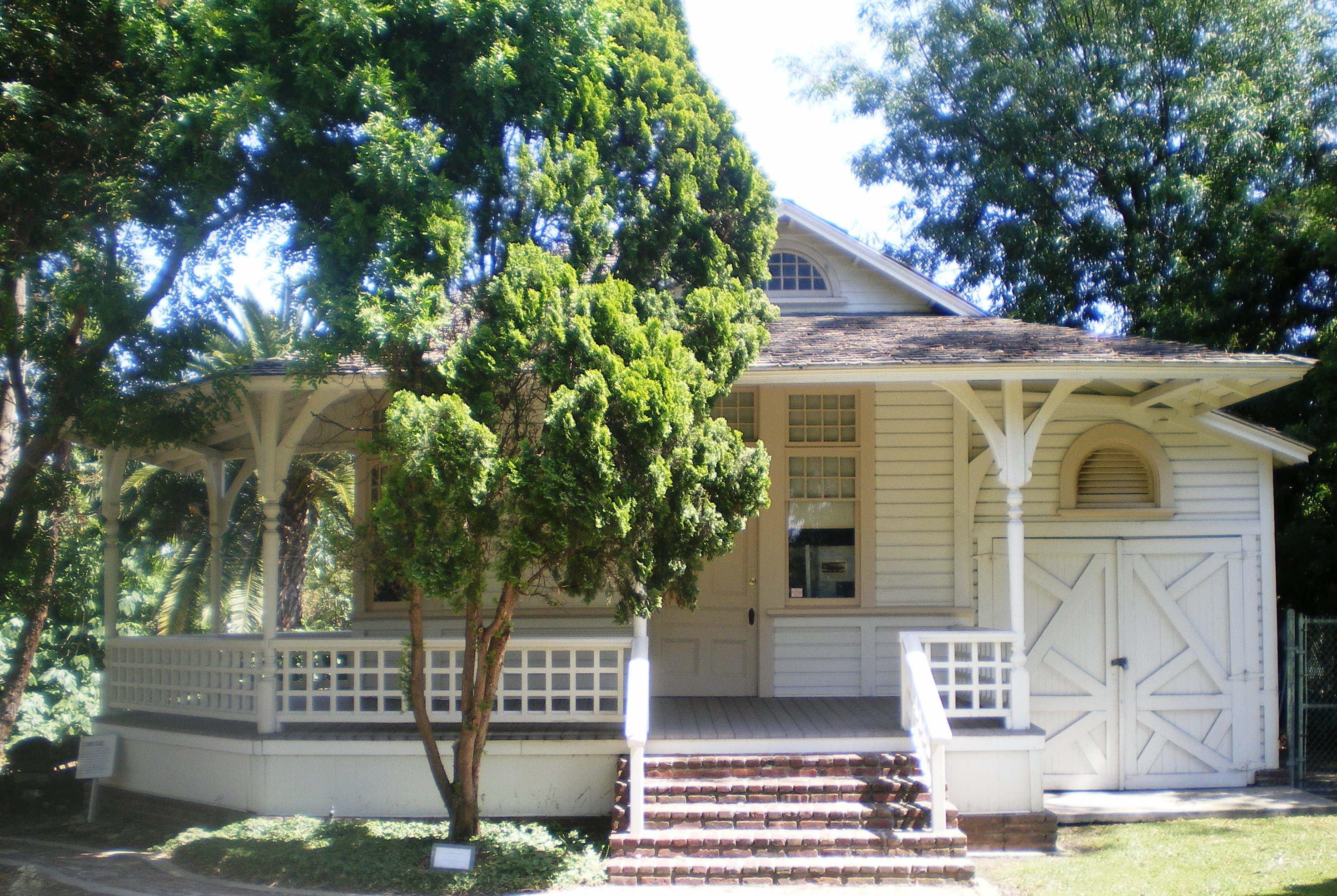 Daniel Freeman Land Office, Inglewood, California More images